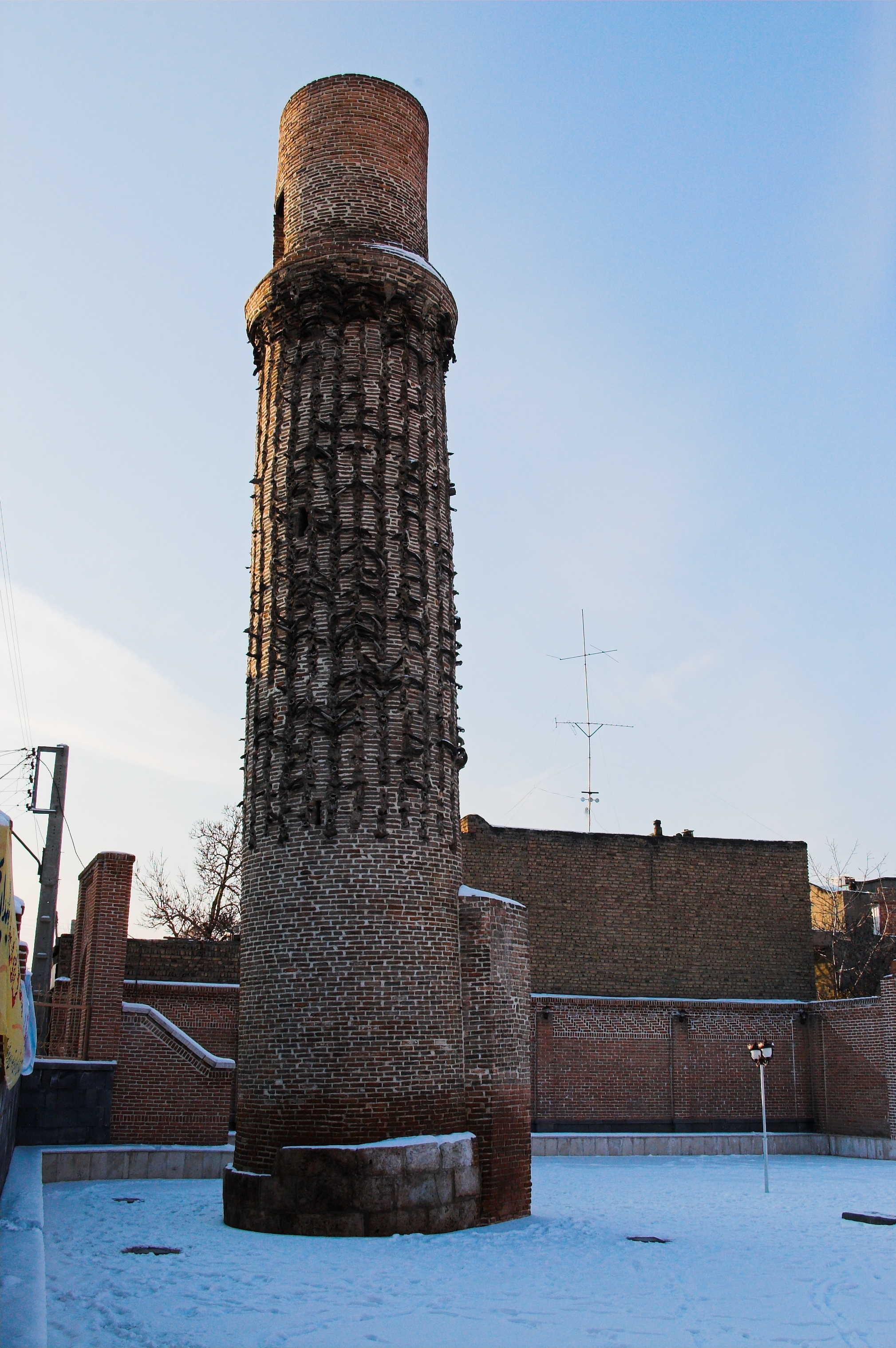 Monument tower at the Tomb of Shams Tabrizi — in Khoy, South Azerbaijan province, Iran. The famous poet from Ancient Persia is buried at the foot of this tower.